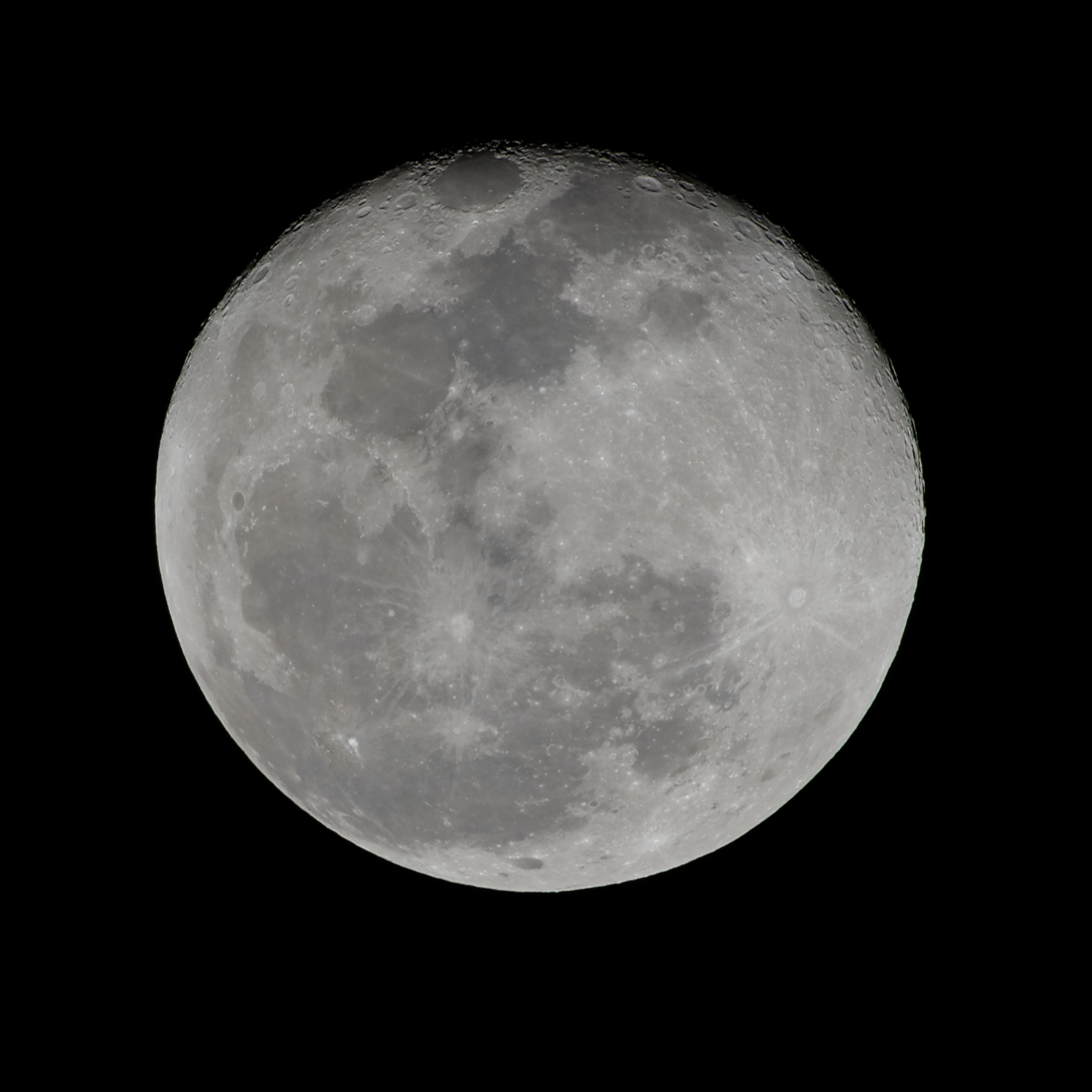 Photograph of the Moon exposed using the "Looney 11 rule". This was 1/200th second at ISO 200 and f/11.